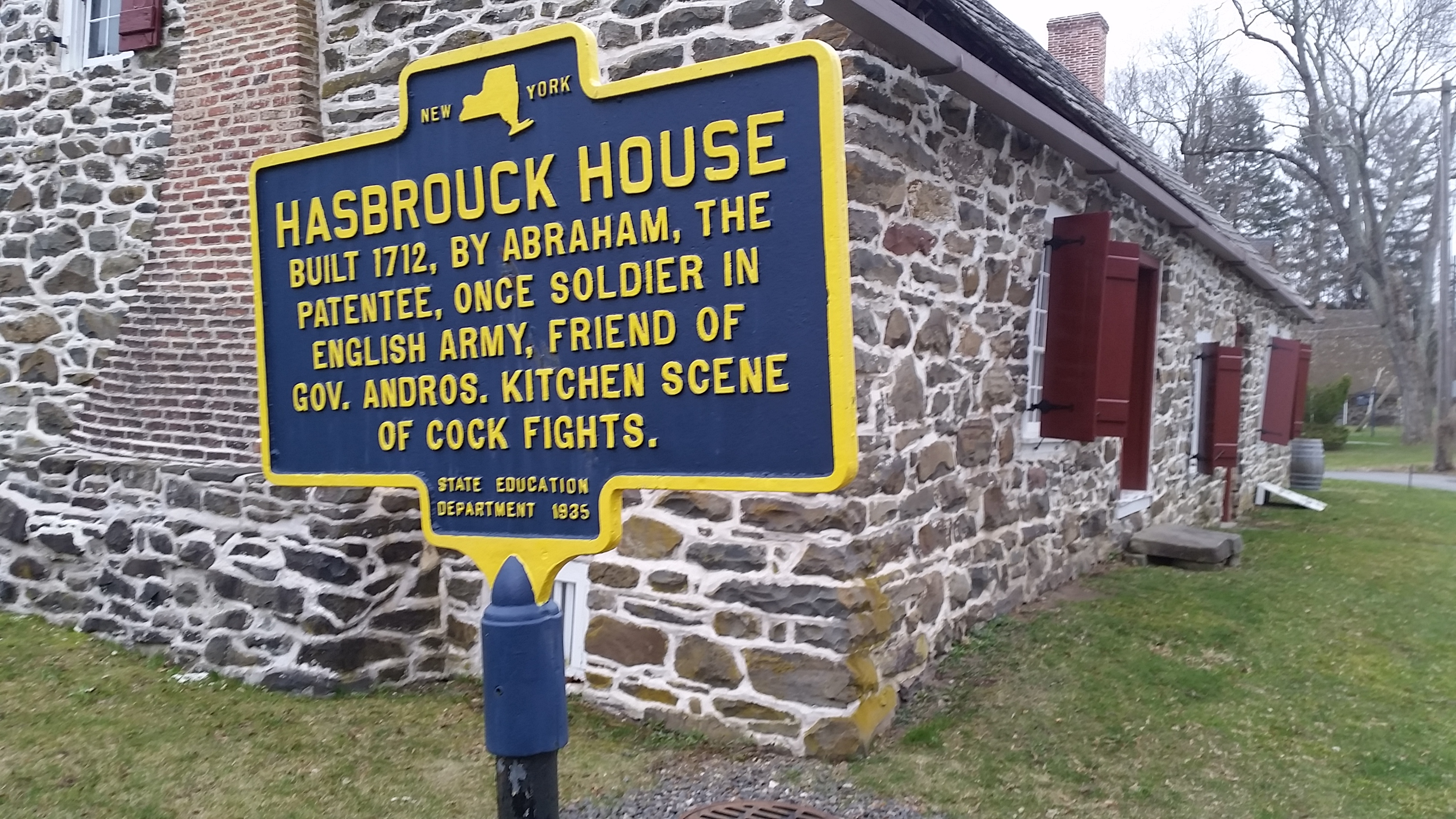 NY State Historic Marker at New Paltz's Huguenot Street Historic District for the Hasbrouck House (not the Jean Hasbrouck House, that's down the street)